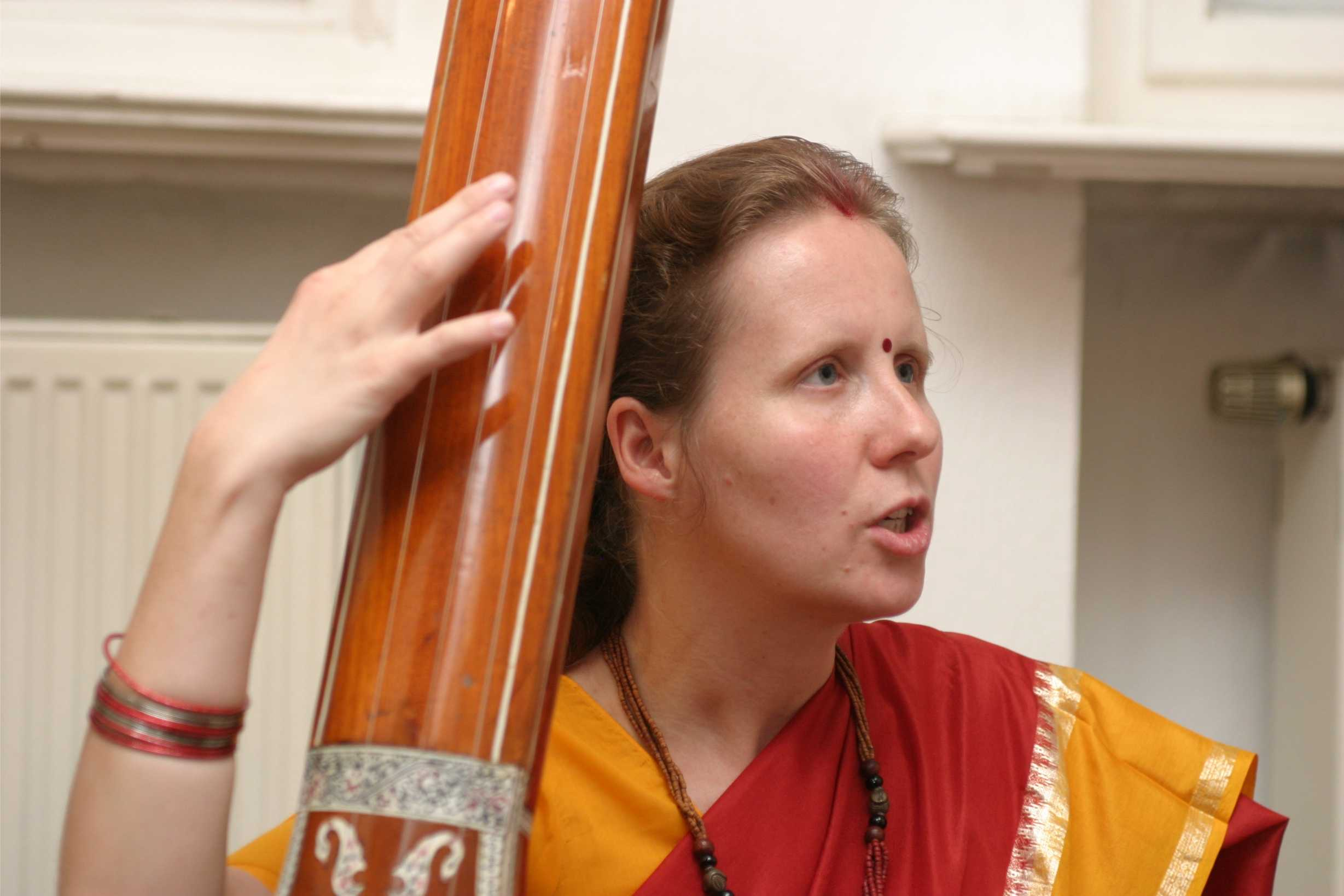 Selina Sharma performing temple songs at the opening of the exhibition "Traditional miniature paintings by young artists from Vraja" in August 2006